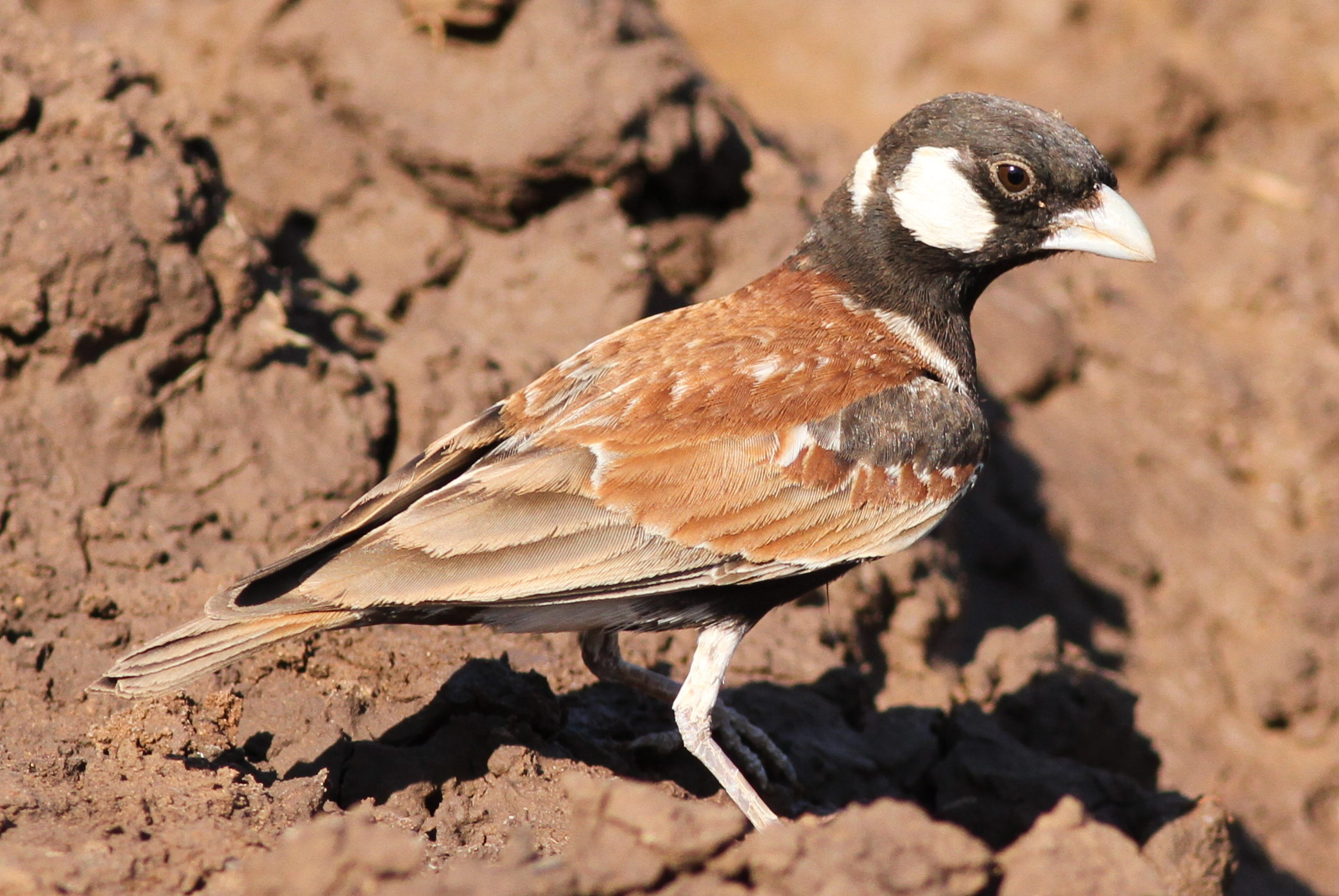 Chestnut-backed sparrow-lark,Eremopterix leucotis (male) at Mapungubwe National Park, Limpopo, South Africa